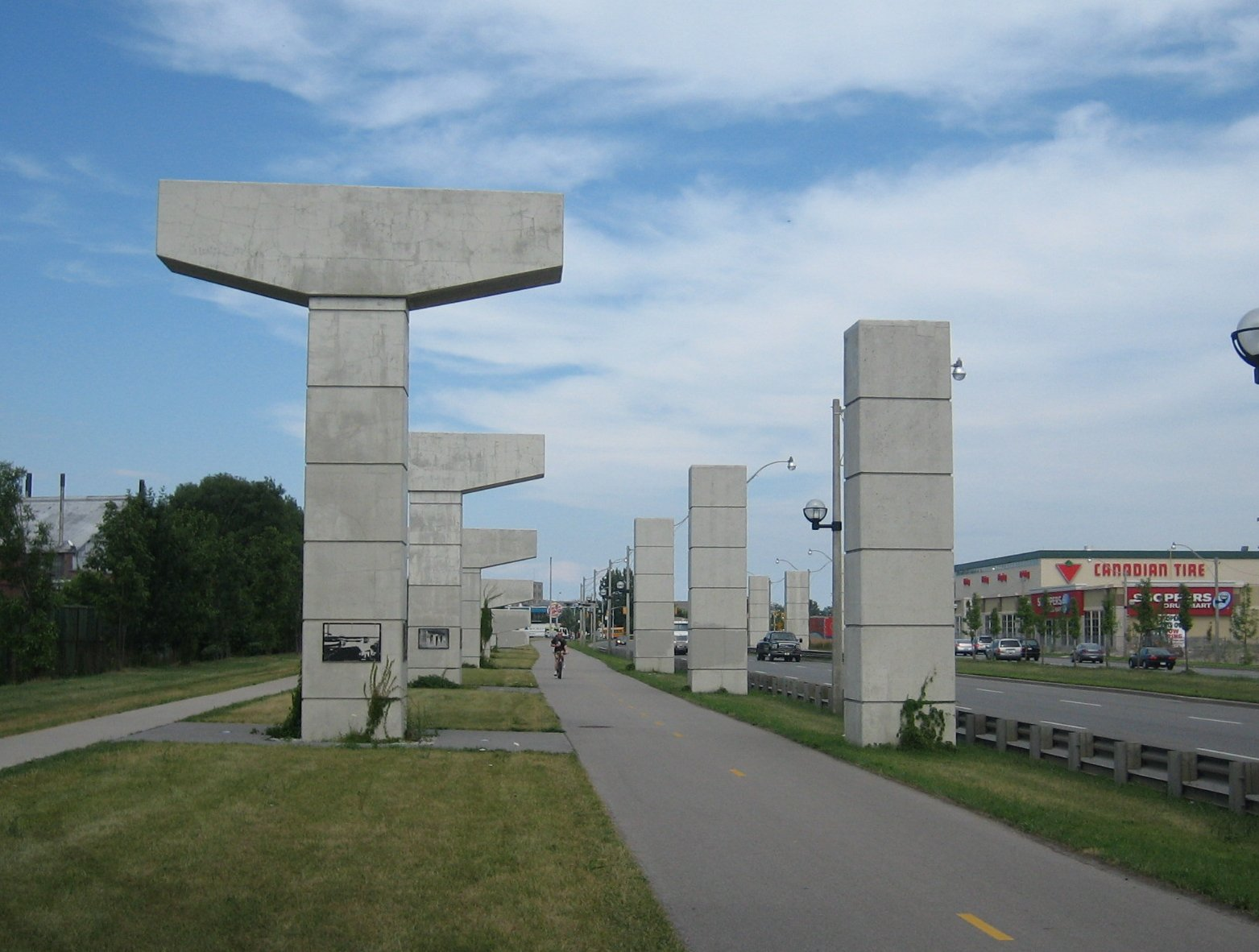 Eastern section of the Gardiner Expressway, which was dismantled in 2001 and some of the former pillars of the elevated expressway were maintained as public art. This section of the Expressway was to constitute a portion of the aborted Scarborough Expressway